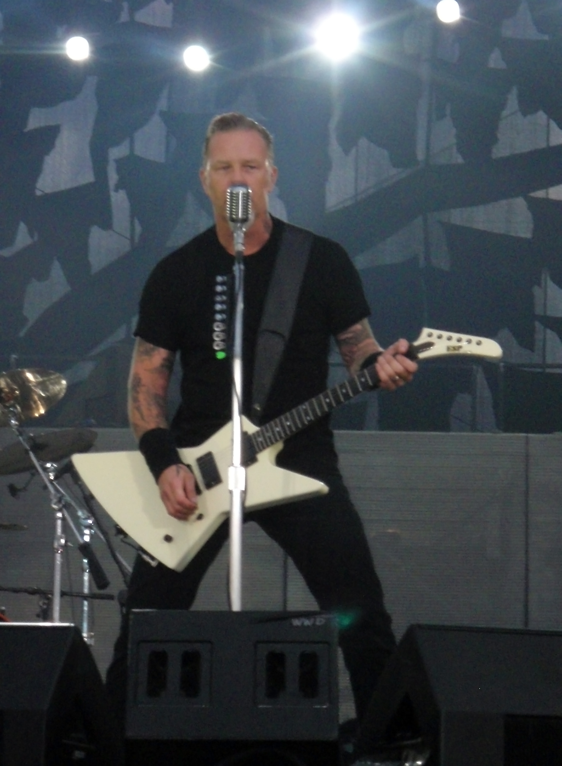 James Hetfield from Metallica performing at Sonisphere Festival in Kirjurinluoto, Pori, Finland.